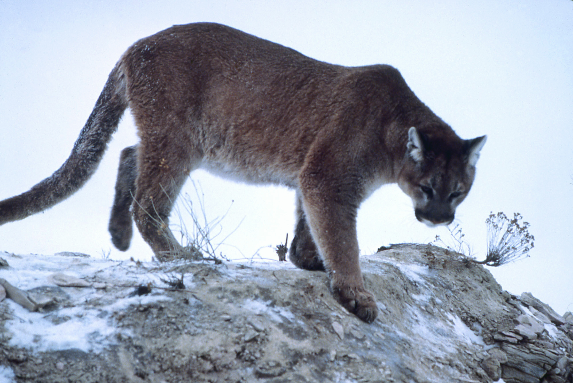 Mountain lion climbing down rock, Yellowstone National Park